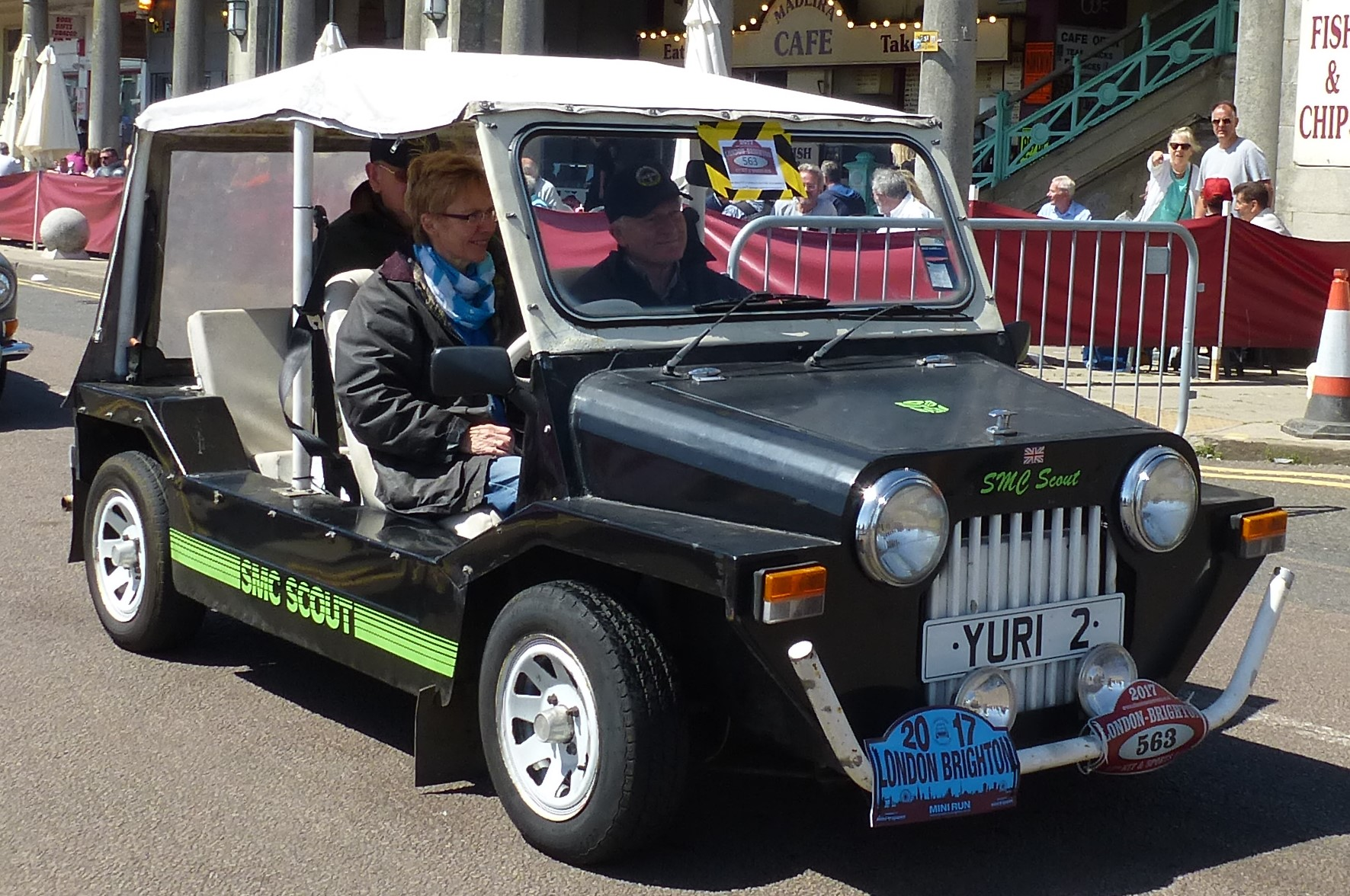 Scout